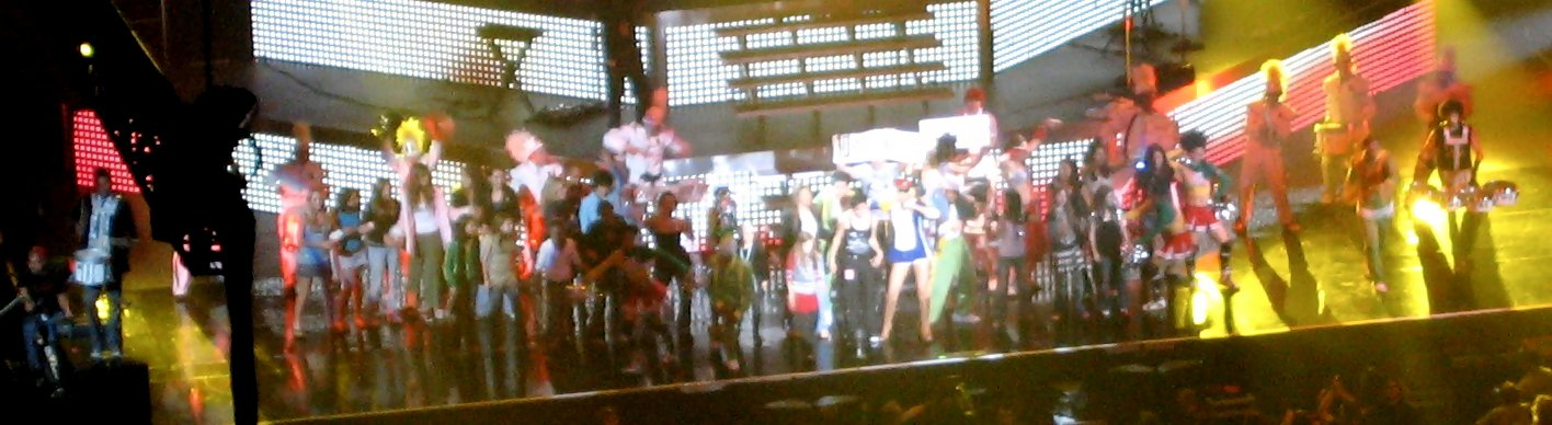 Gwen Stefani performing "Hollaback Girl" at the Arrowhead Pond of Anaheim in Anaheim, California, United States